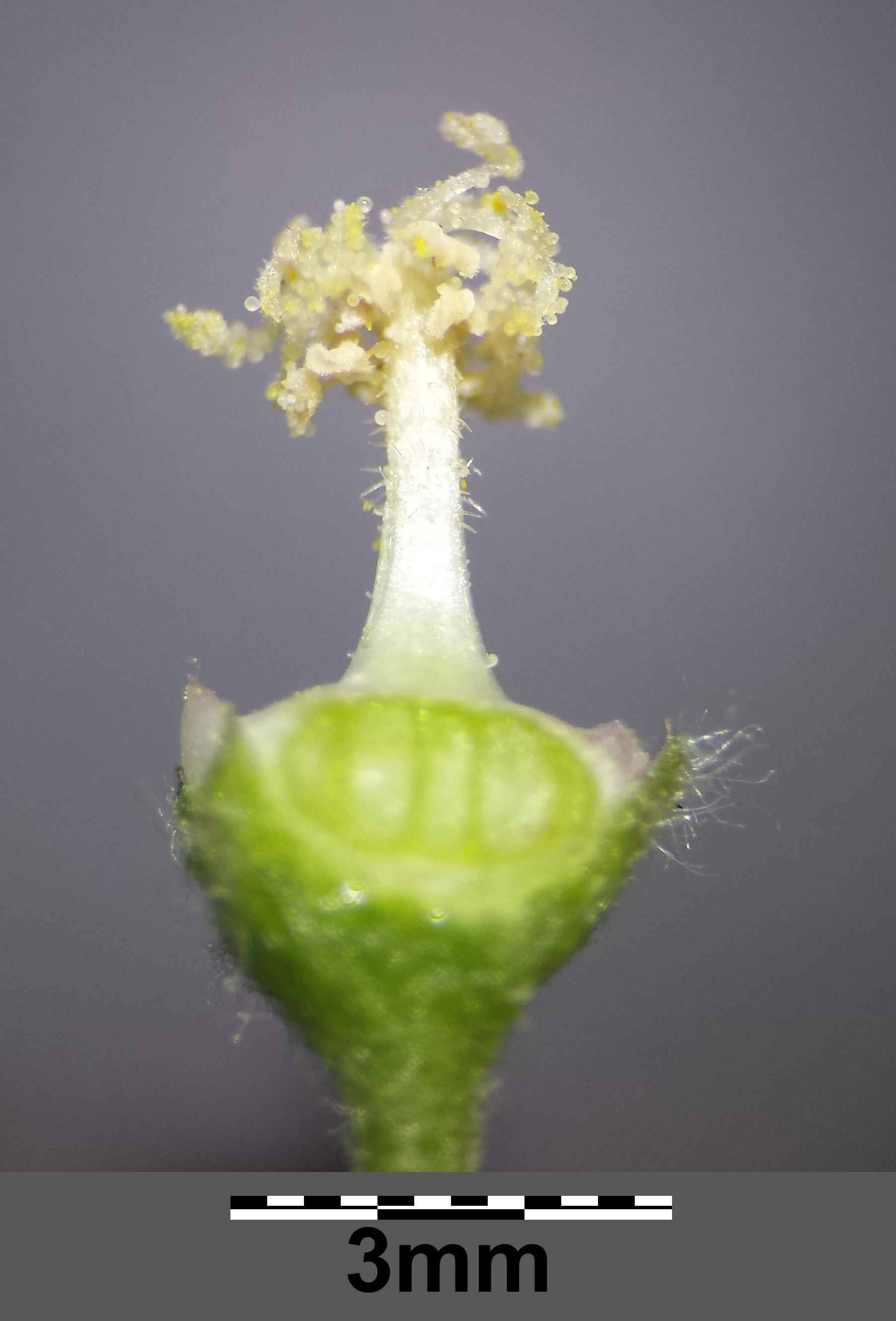 Flower opened Taxonym: Malva verticillata ss Fischer et al. EfÖLS 2008 ISBN 978-3-85474-187-9 Location: Steinberg near Niederhollabrunn, district Korneuburg, Lower Austria - ca. 375 m a.s.l. Habitat: field of pumpkins